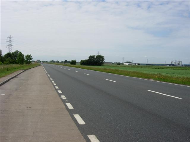 The A17 near Little Sutton.